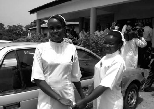 Original caption: "Retaining the services of health care professionals like these nurses in Nigeria is an important objective of the Emergency Plan." — removed caption